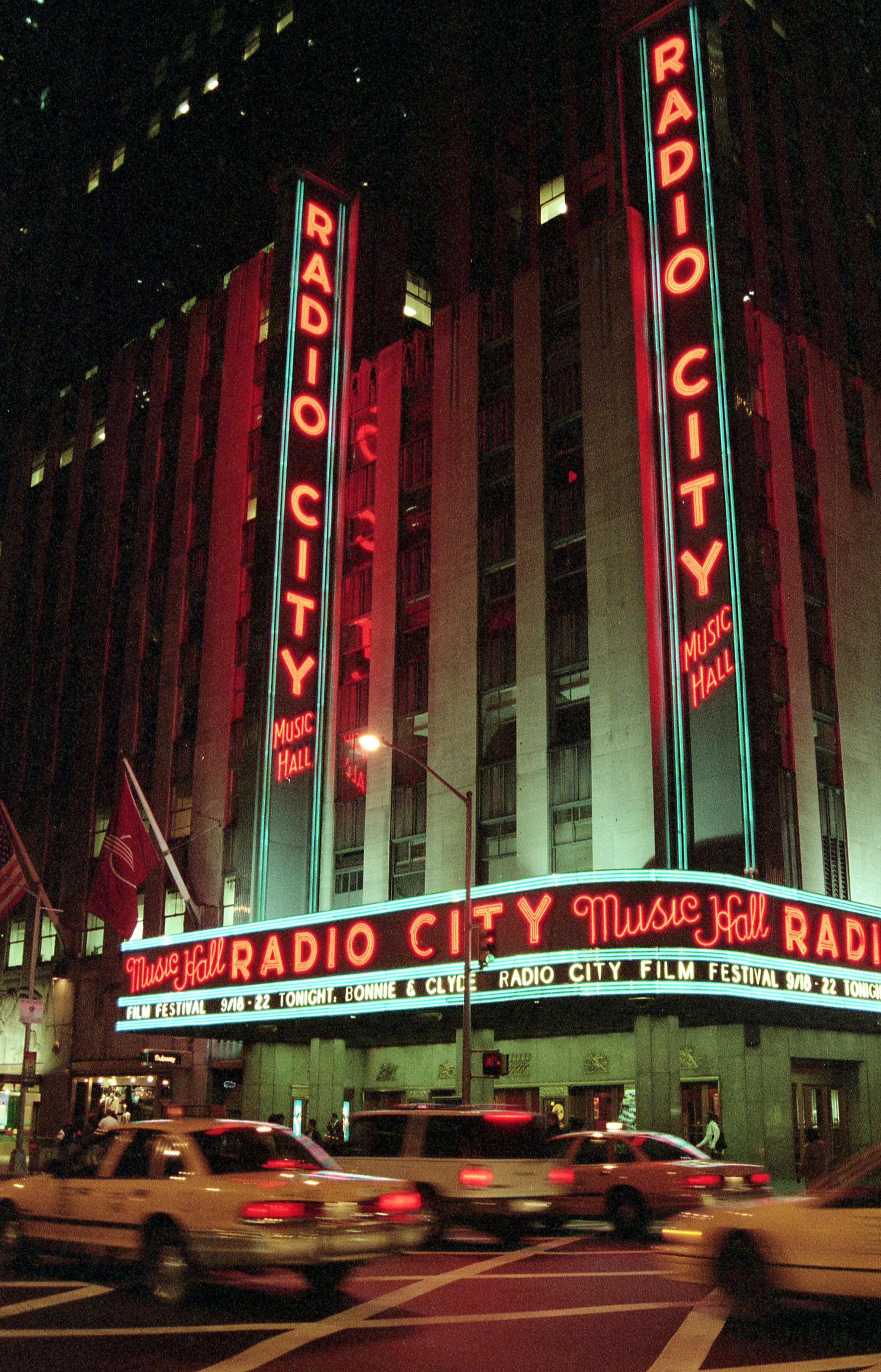 Manhattan, New York, NY: Radio City Music Hall